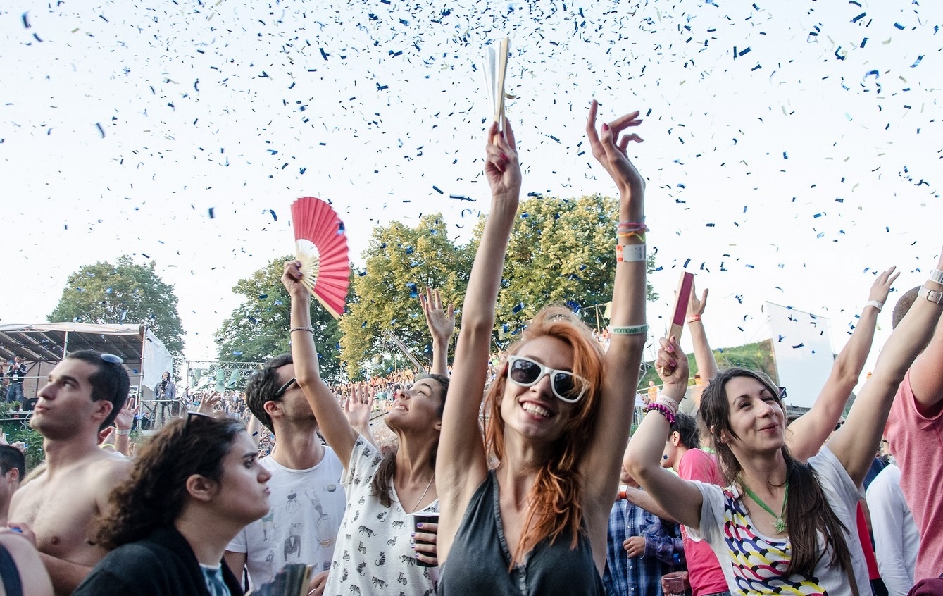 Crowd at Dance Arena, Exit 2013.Srpski (latinica): Publika u Dens areni, Egzit 2013.